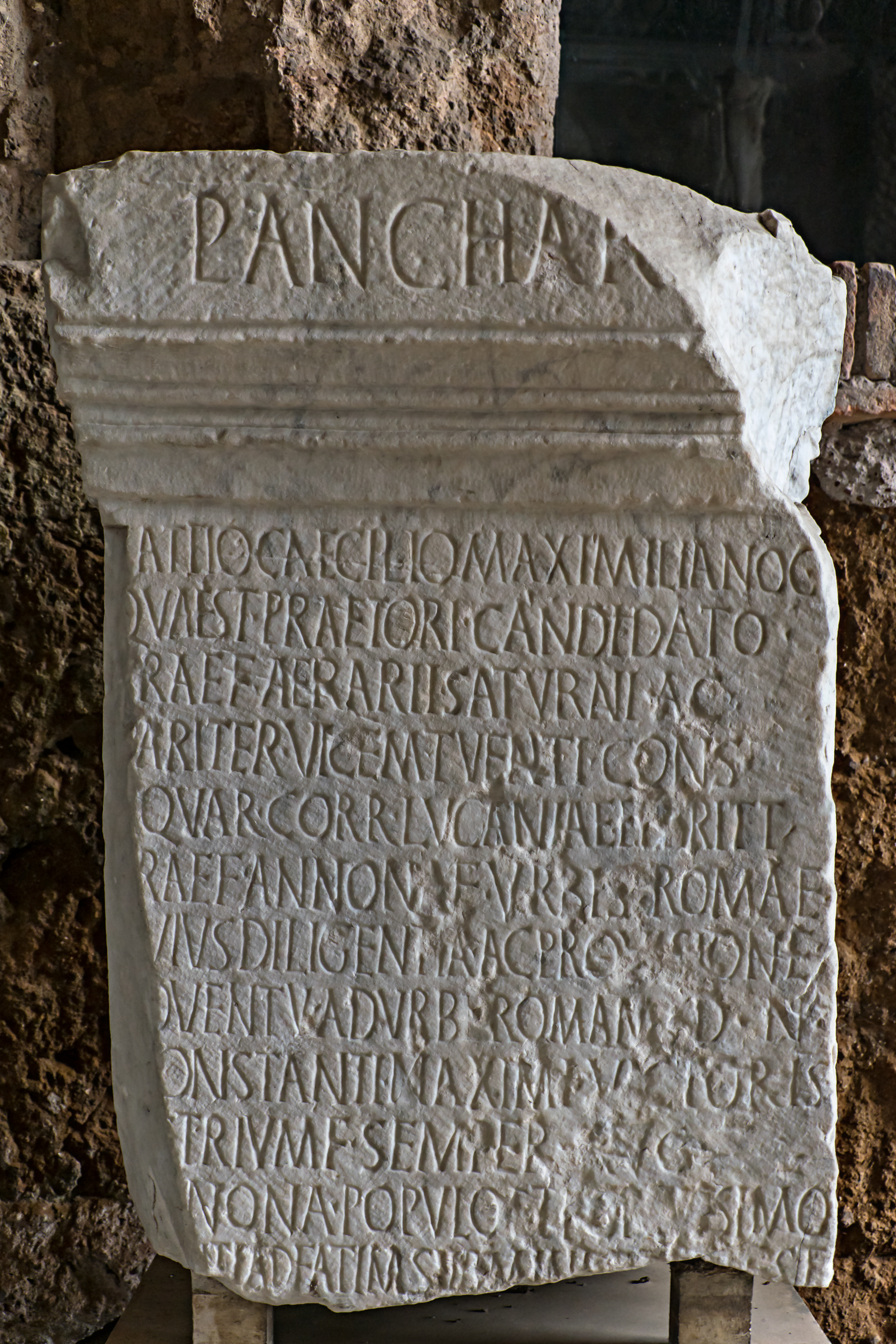 Attius Caecilius Maximilianus signo Pacharius, illustrious senator, quaestor, praetorian candidate, prefect of the treasury of Saturn and simultaneously responsible for the aqueducts and the water suppy, governor of Lucania and Bruttium, prefect of the annoa for the city of Rome, for having distributed with diligence and ingenuity alimentary goods in abudance, both to the people and the valorous army, during his visit 357 AD to Rome of Constantius II. The base is exhibited in the Capitoline Museums in Rome.